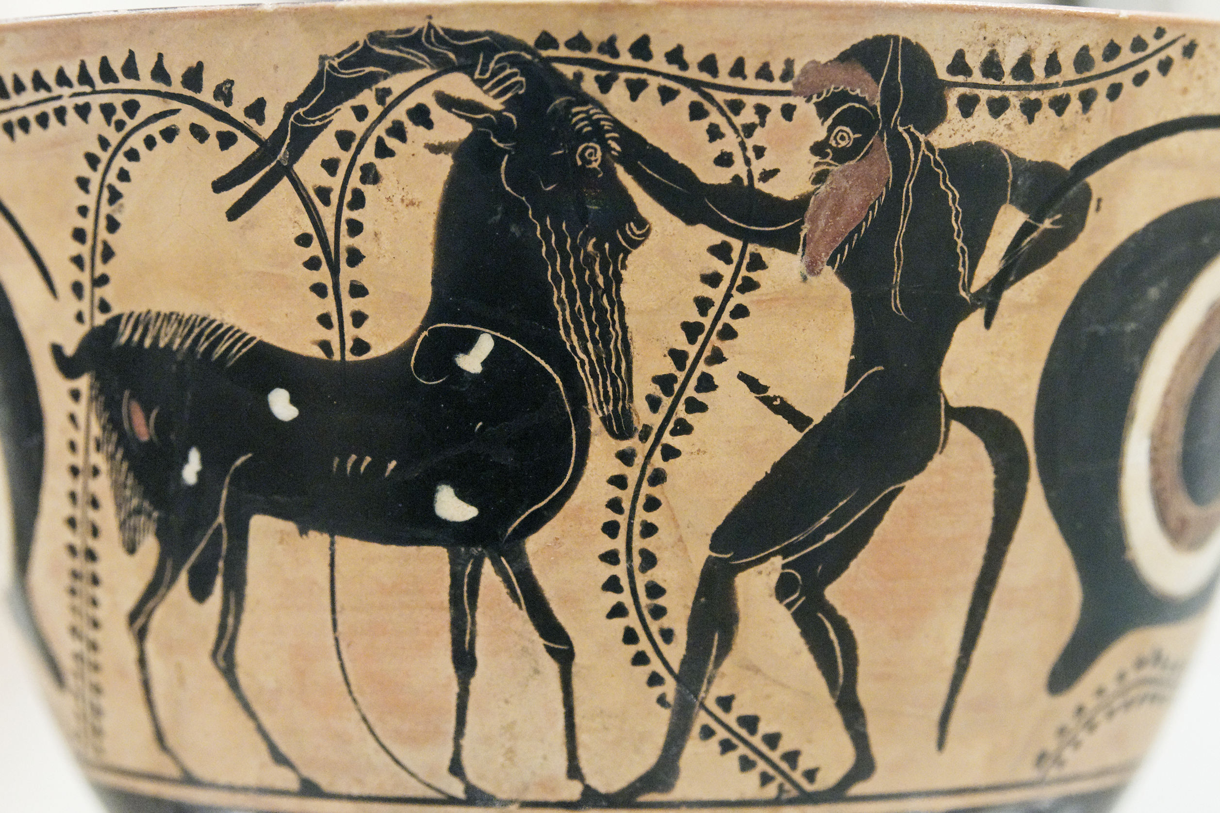 Silenus and billy goat. Side A of an Attic black-figure kyathos.